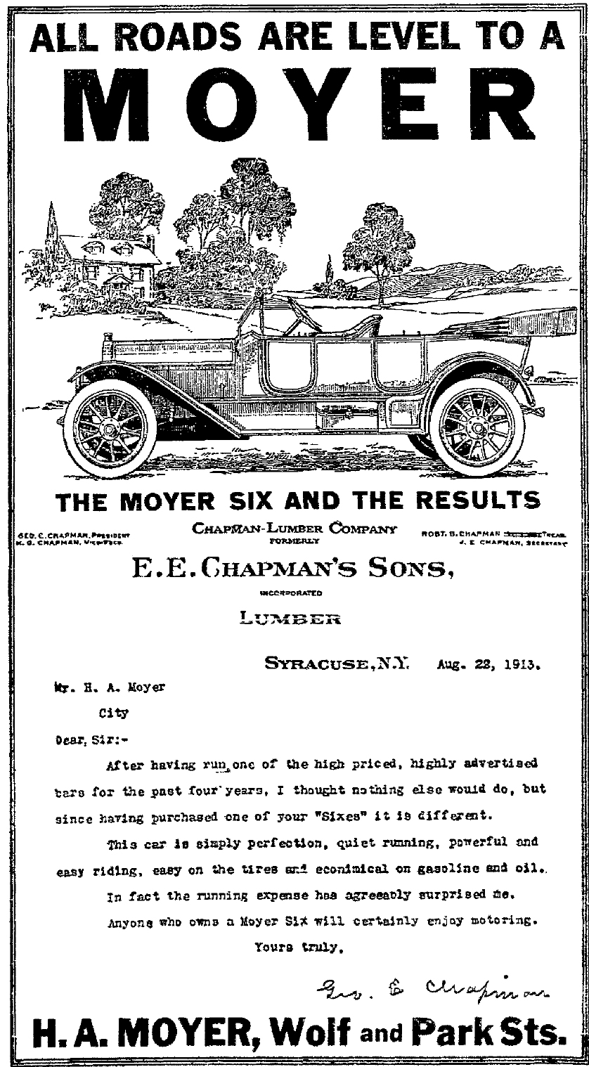 All roads are level to a Moyer - 1913